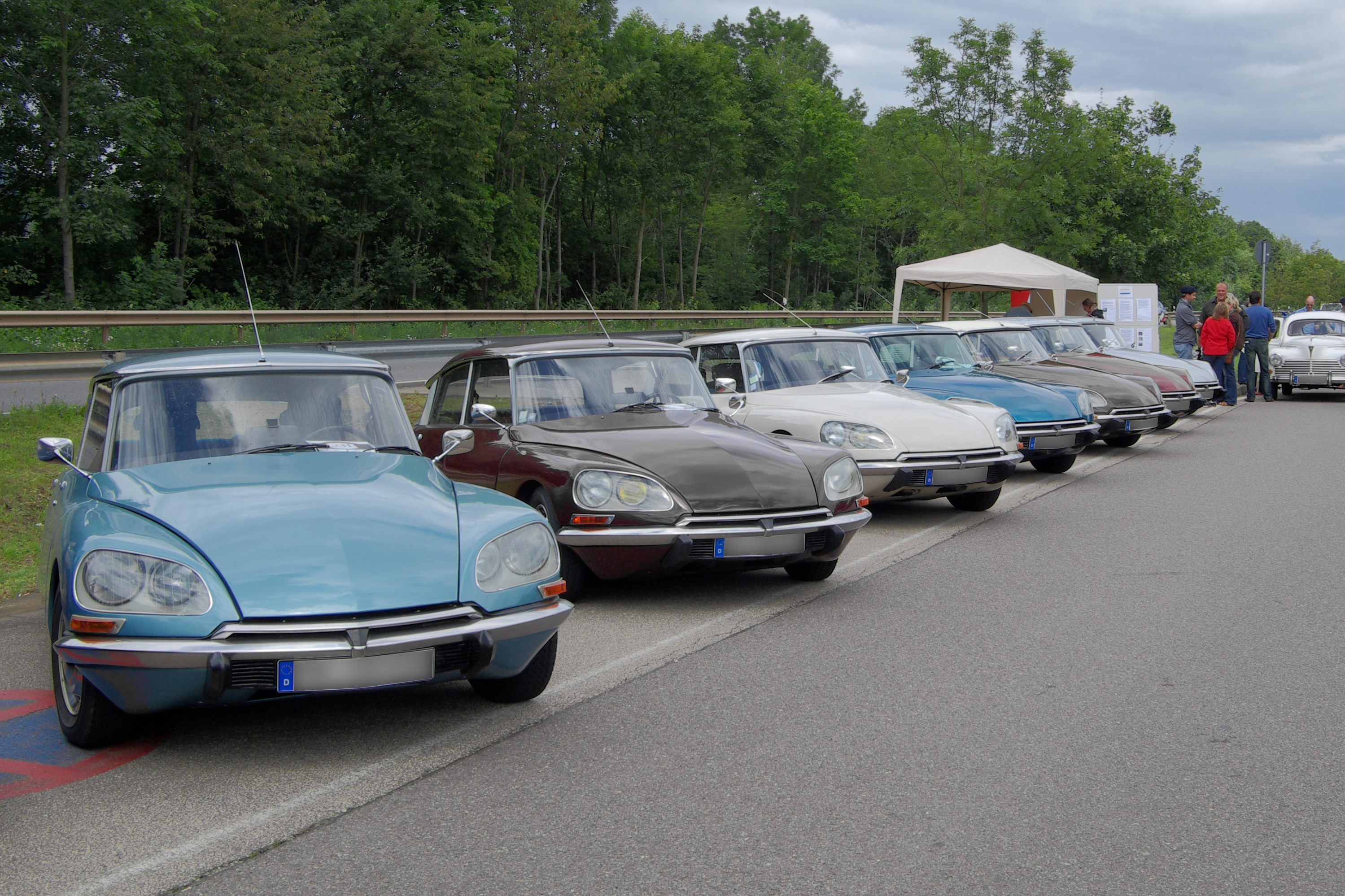 some Citroën DS, 28. Internationales Oldtimer-Treffen, Konz